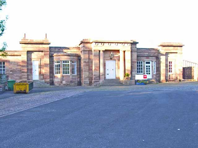 The old station, Ashby-de-la-Zouch. Although there is still an operational railway here, the fine old station, dating from the days when Ashby-de-la-Zouch was a spa town, has been closed for many years.